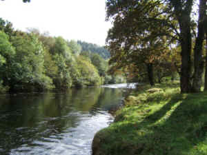 Picture of the River Balvaig